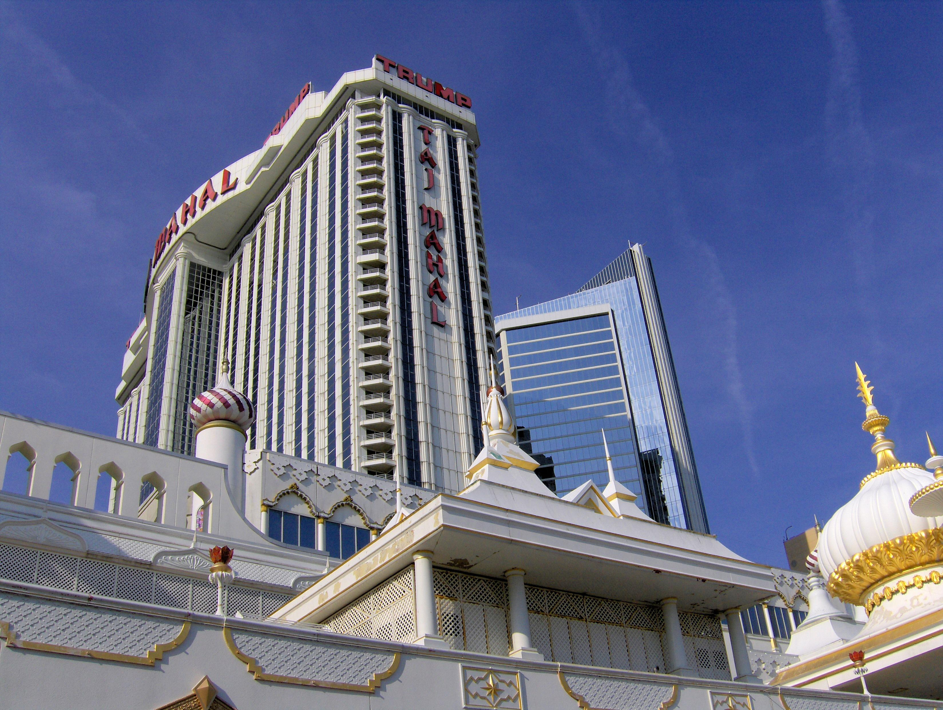 View of Trump Taj Mahal and Chairman Tower from the Boardwalk.